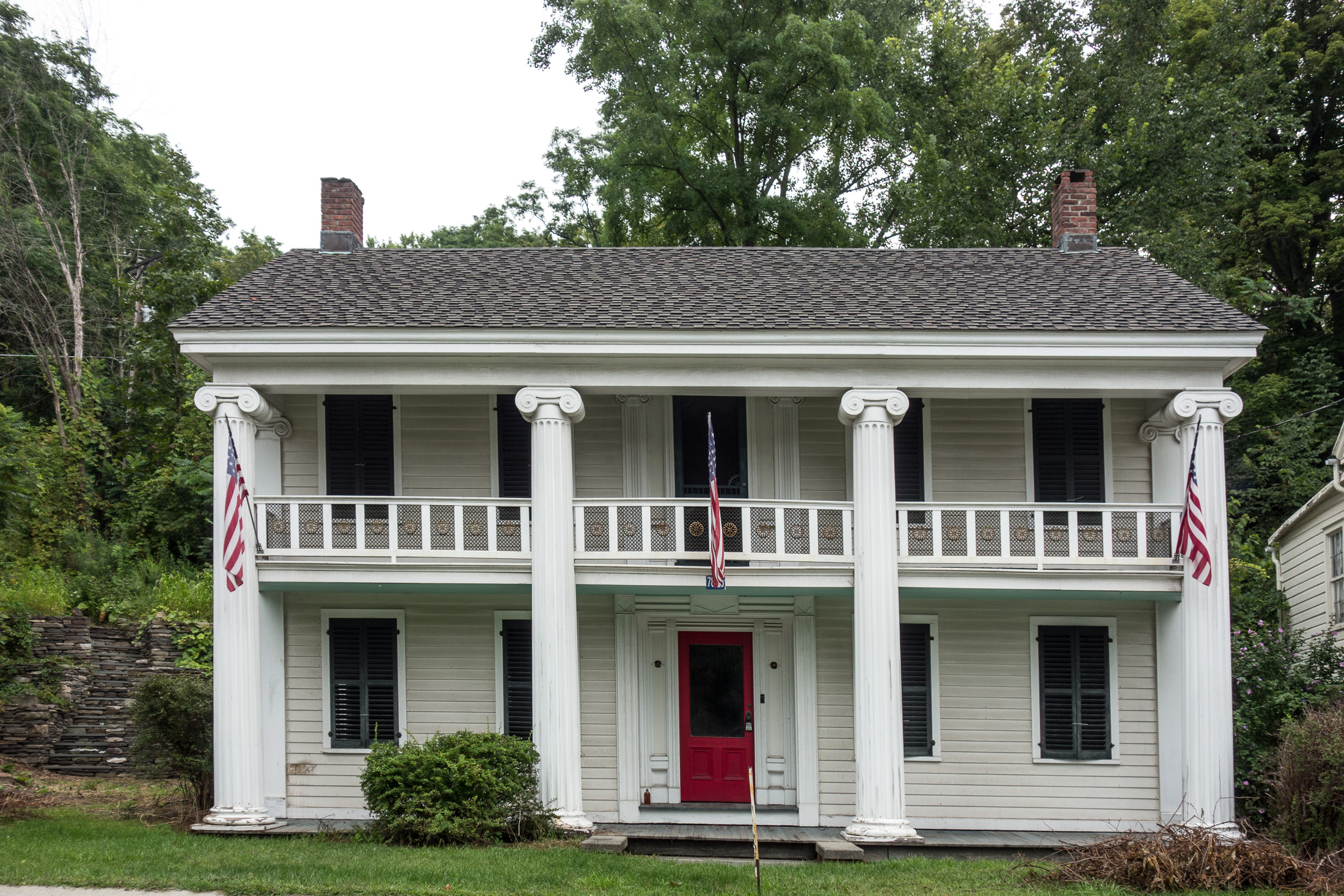 Charles Pierce House, 7846 NY 81 Durham